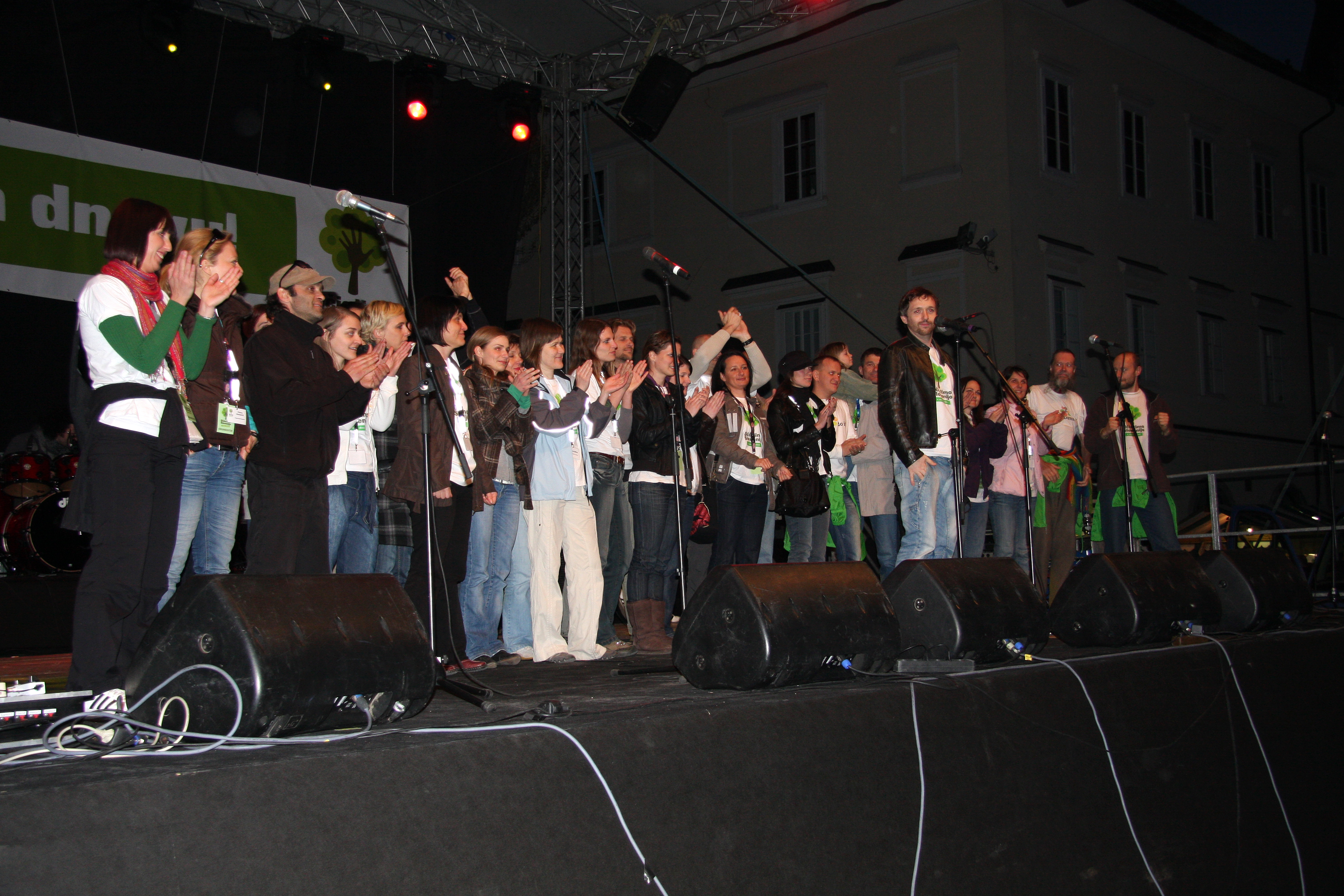 Organizing commitee of the "Očistimo Slovenijo v enem dnevu!" event.